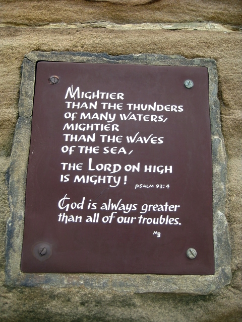 Psalm 93:4 This plaque is affixed to the south side of the west pier lightouse. See 1394894